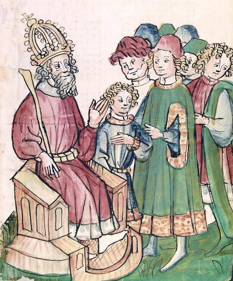 Emperor Pontianus, his son Diocletian and the seven wise masters. Illustration from a 15th century manuscript.